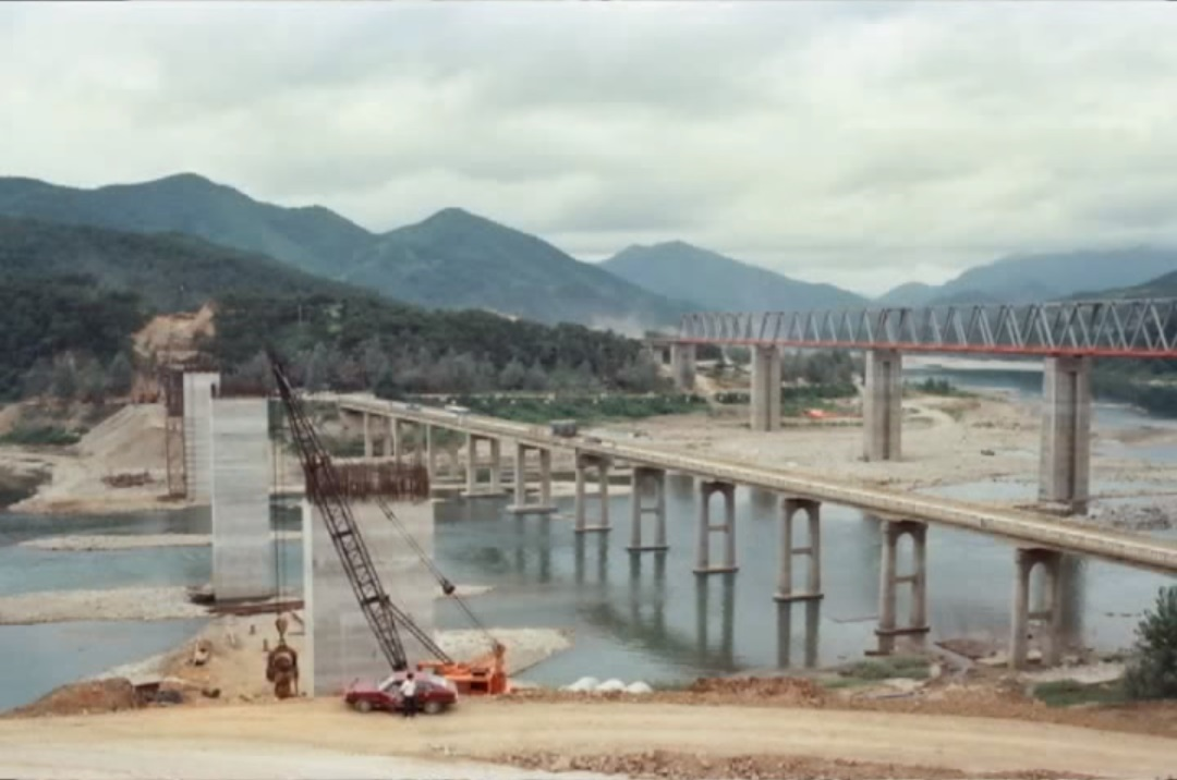 National Route 5 Sangjin Bridge Under Construction(Left), National Route 5 Old Sangjin Bridge(Central, Demolition from After 1985), Jungang Line Sangjin Railway Bridge(Right)(1984)